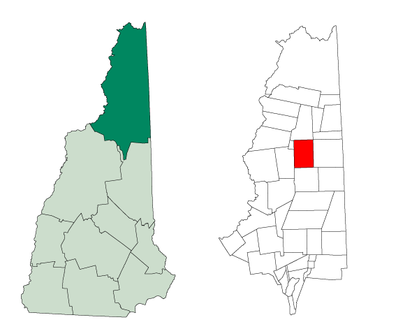 Map of a municipality in Coos County, New Hampshire